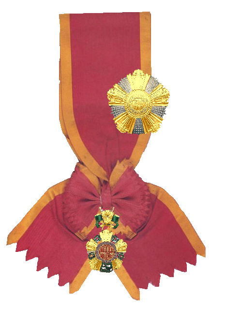 Grand Cross National Order of Vietnam